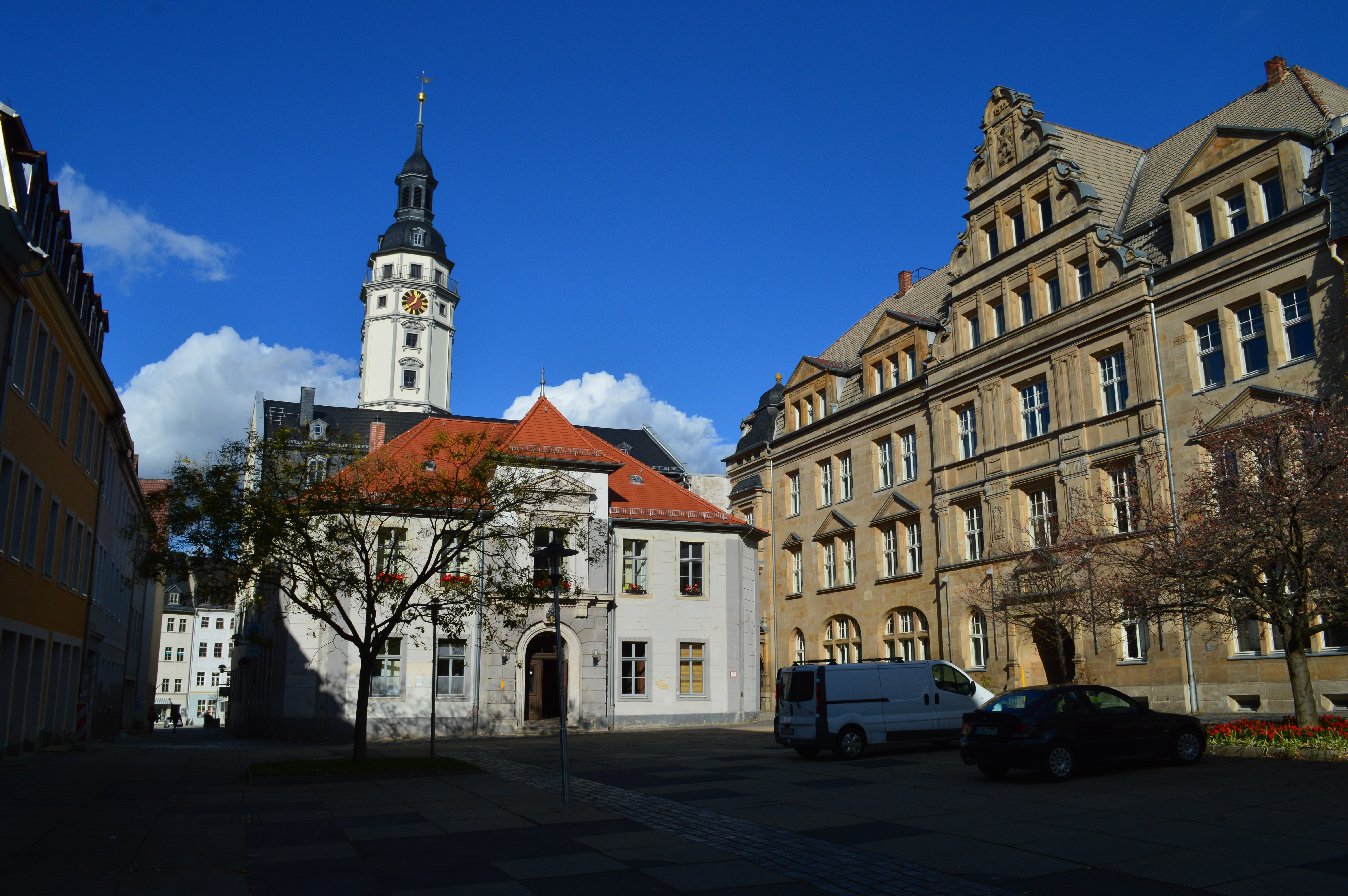 Kornmarkt in Gera, Germany, in October 2013; on the left the extension building of the city hall of 1793; on the right the Neues Rathaus (New City Hall) of 1911/12